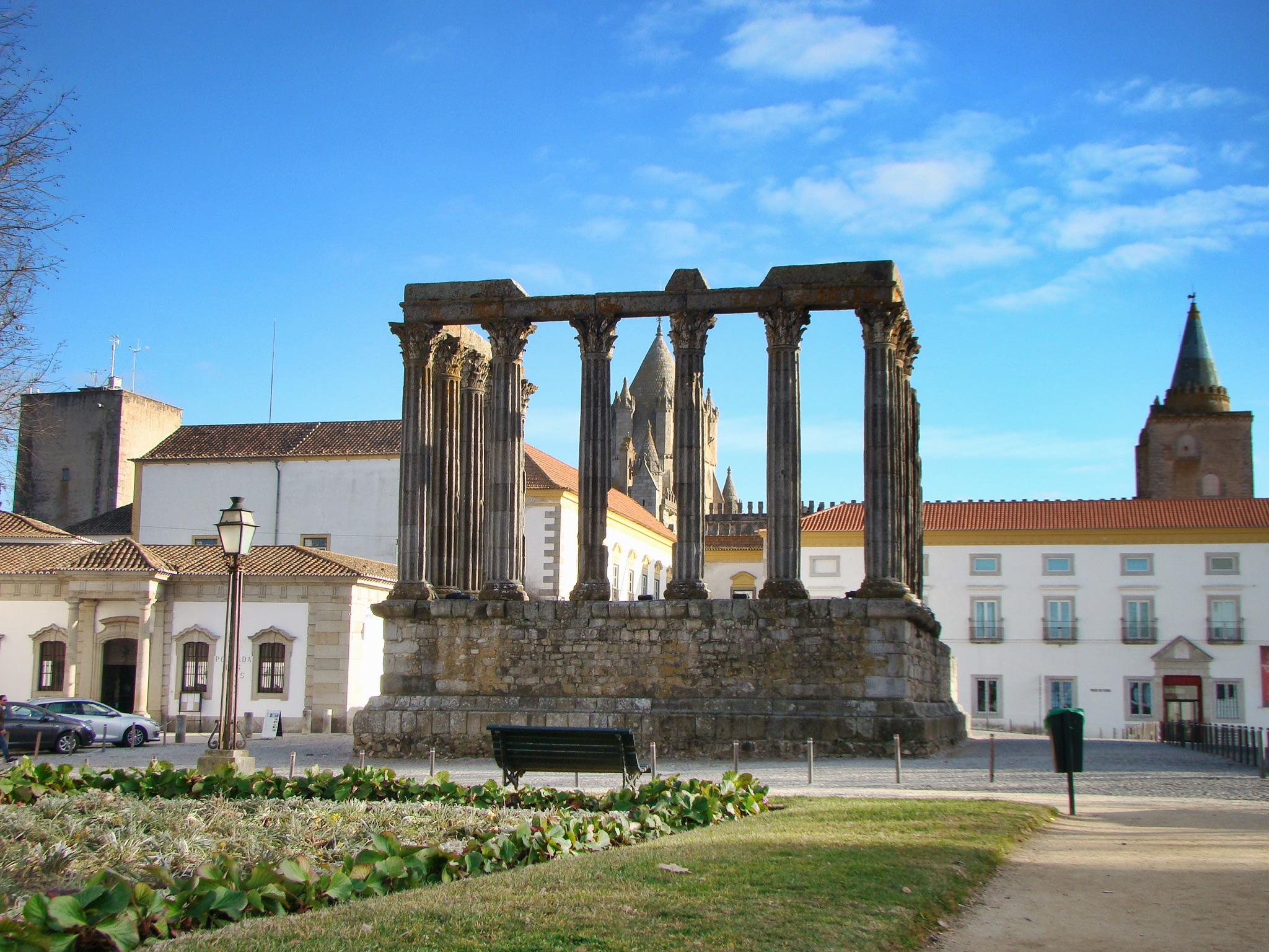 Diana Temple, Évora - Alentejo